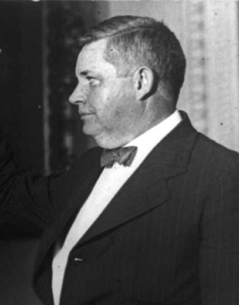 J. Reuben Clark being sworn in as Undersecretary of State by William McNeir. SUBJECTS Clark, J. Reuben (Joshua Reuben), 1871-1961. Oaths--United States--1920-1930. Government officials--United States--1920-1930. FORMAT Group portraits 1920-1930. Portrait photographs 1920-1930. Photographic prints 1920-1930.